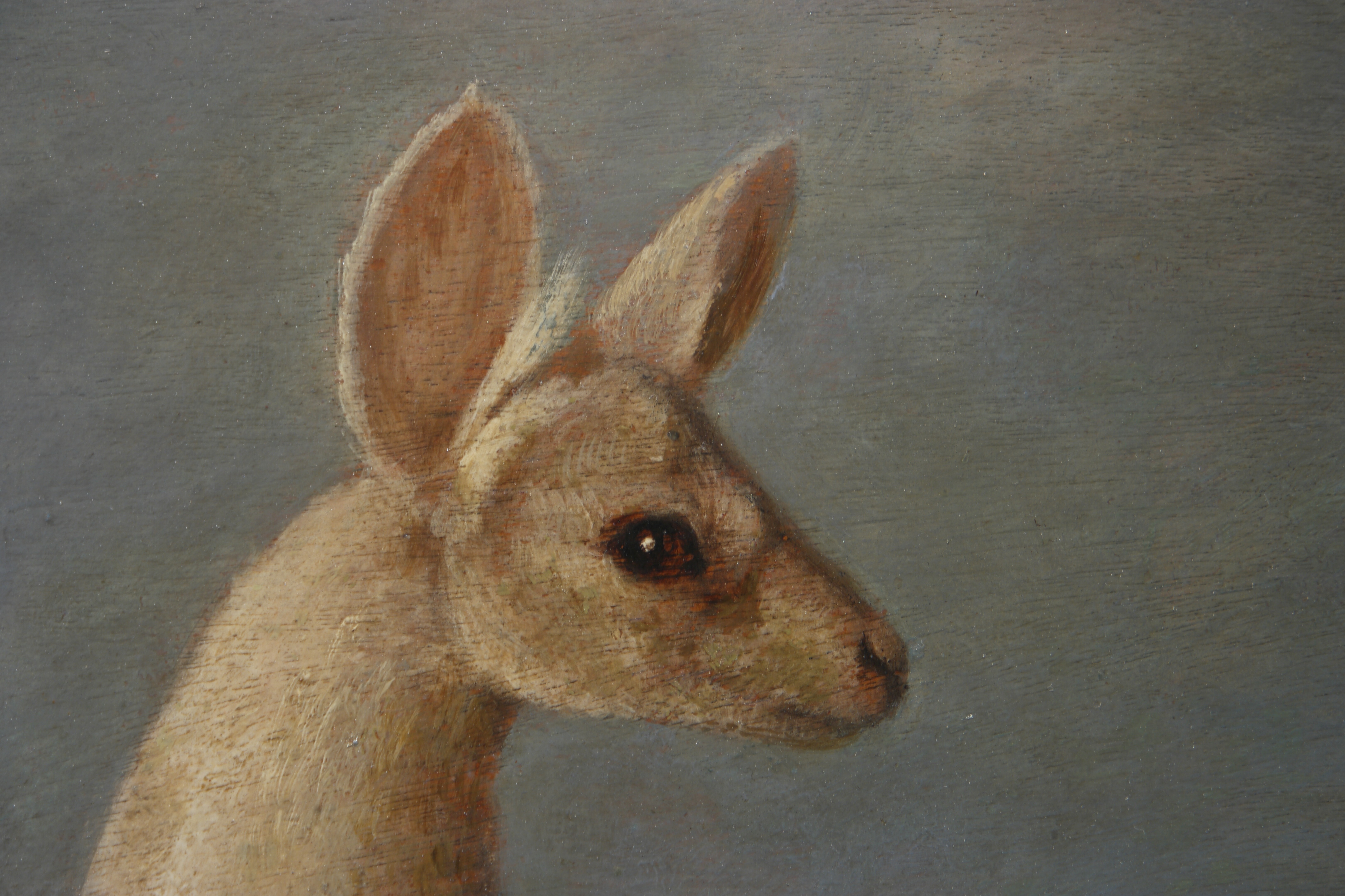 The Kongouro from New Holland is an oil painting by George Stubbs. Depicting a kangaroo, it is the first depiction of an Australian animal in Western Art, along with a painting of a dingo—Portrait of a Large Dog—also by George Stubbs. It is part of the collection of the National Maritime Museum in Greenwich, London. The work was commissioned by Joseph Banks and based on the inflated skin of an animal he had collected from the east coast of Australia in 1770 during Lieutenant James Cook's first voyage of discovery. It depicts the animal sitting on a rock and looking over its shoulder with a backdrop of trees and mountains. The two were the only two paintings that Stubbs did not draw from a live subject.